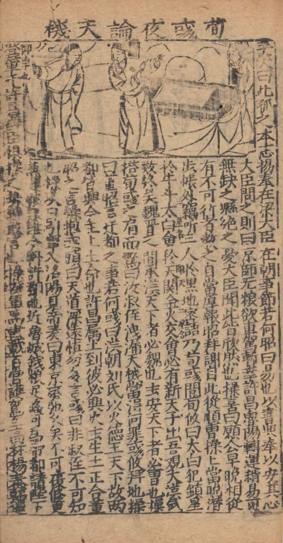 A page taken from Xin ke yin shi pang xun ping lin yan yi) san guo zhi zhuan ((新刻音釋旁訓評林演義)三國志傳). In this chapter Xun Yu predicts the fall of Eastern Han Dynasty and the rise of Wei through astrology. The scene exists only in certain versions of Romance of the Three Kingdoms. 中文（中国大陆）: 朱鼎臣辑本《(新刻音釋旁訓評林演義)三國志傳》某页。本章回名为“迁銮舆曹操秉政”，其中荀彧夜论天机，预言汉亡魏兴的情节仅在部分版本的《三国演义》中出现。